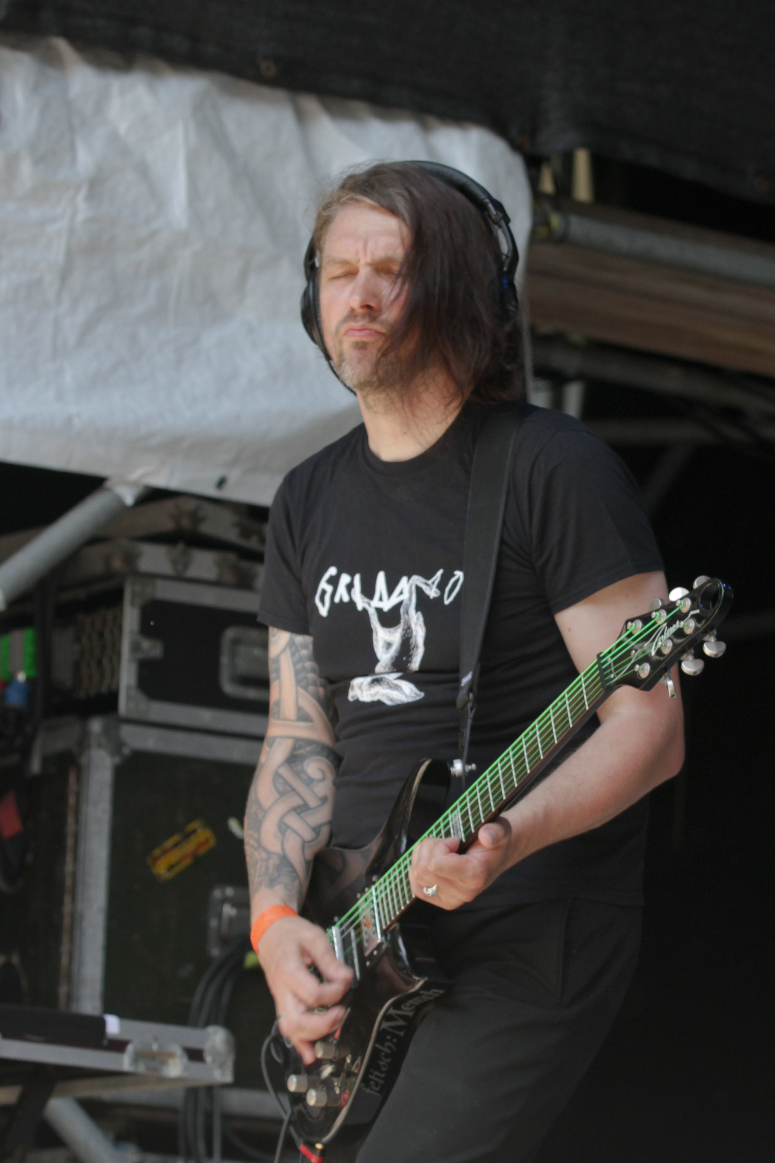 Fetisch:Mensch at the Wave-Gotik-Treffen 2014.